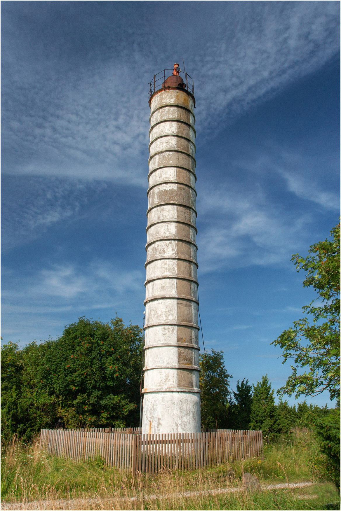 Orjaku rear light beacon